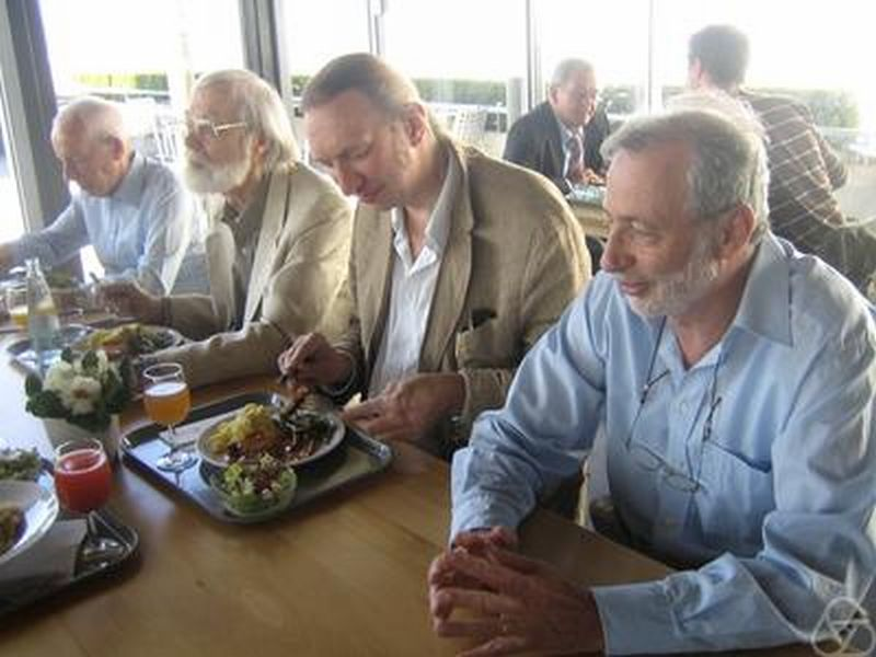 Albrecht Dold (left), John Milnor, Dietmar Salamon, Jean-Pierre Eckmann (right) in Zürich 2007